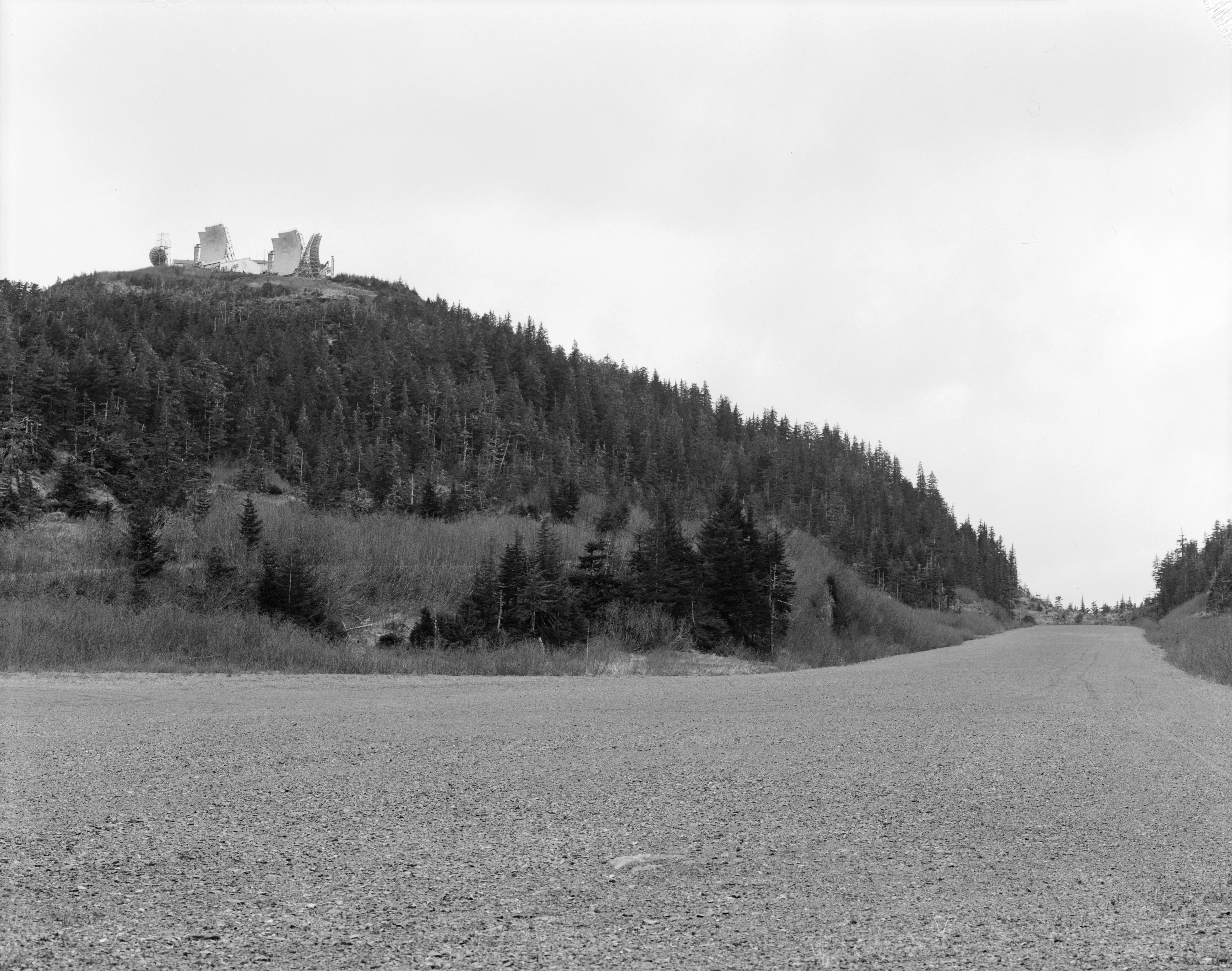 Boswell Bay White Alice Communications System site, southwest overview, Chugach National Forest, Cordova vicinity of Valdez-Cordova District, AK. This image was found at the Library of Congress HAER archive entry with the original caption: "OVERVIEW OF SITE, LOOKING SOUTHWEST HAER AK,20-CORD.V,2-1" (Mirrored image to make words readable, slide must have been scanned in upside down on source site) It is a part of the Historic American Engineering Record collection of photos. Image taken by Rob Stapleton, June 1987. Boswell Bay White Alice Communications System Site